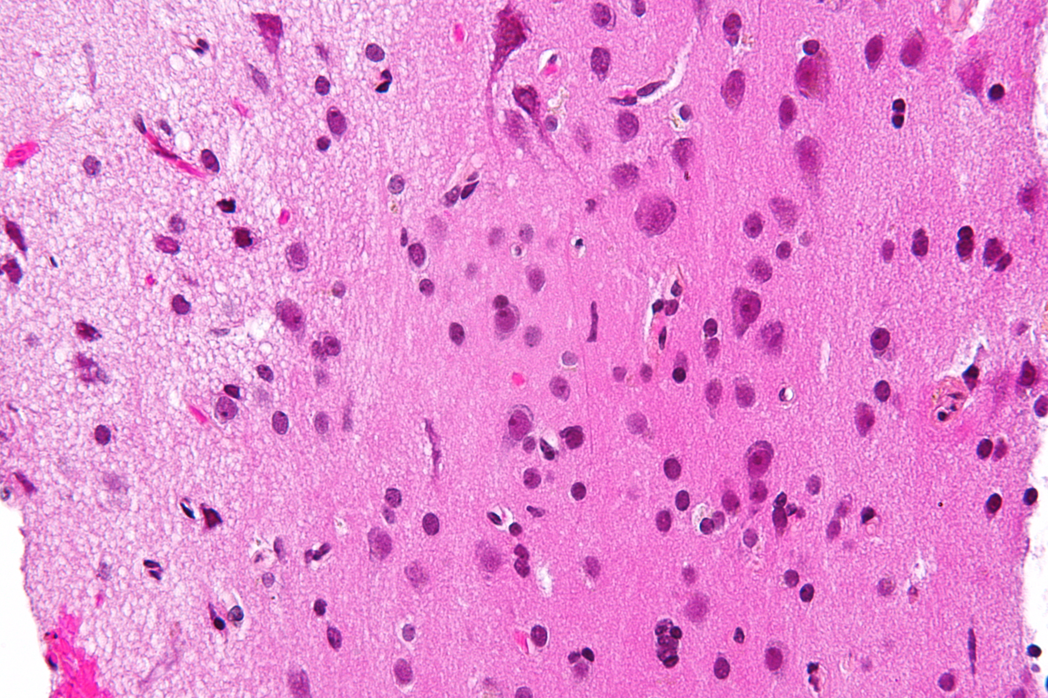 Very high magnification micrograph of brain, showing normal white matter and normal grey matter. HPS stain. Brain biopsy. Related images Intermed. mag. High mag. Very high mag.